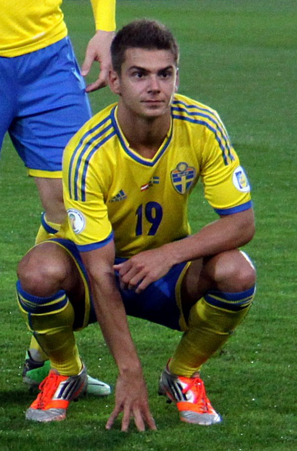 Swedish footballer Alexander Kačaniklić as part of the Swedish national football team at qualifications for the 2014 FIFA World Cup in a 7 July 2013 match of Austria vs Sweden